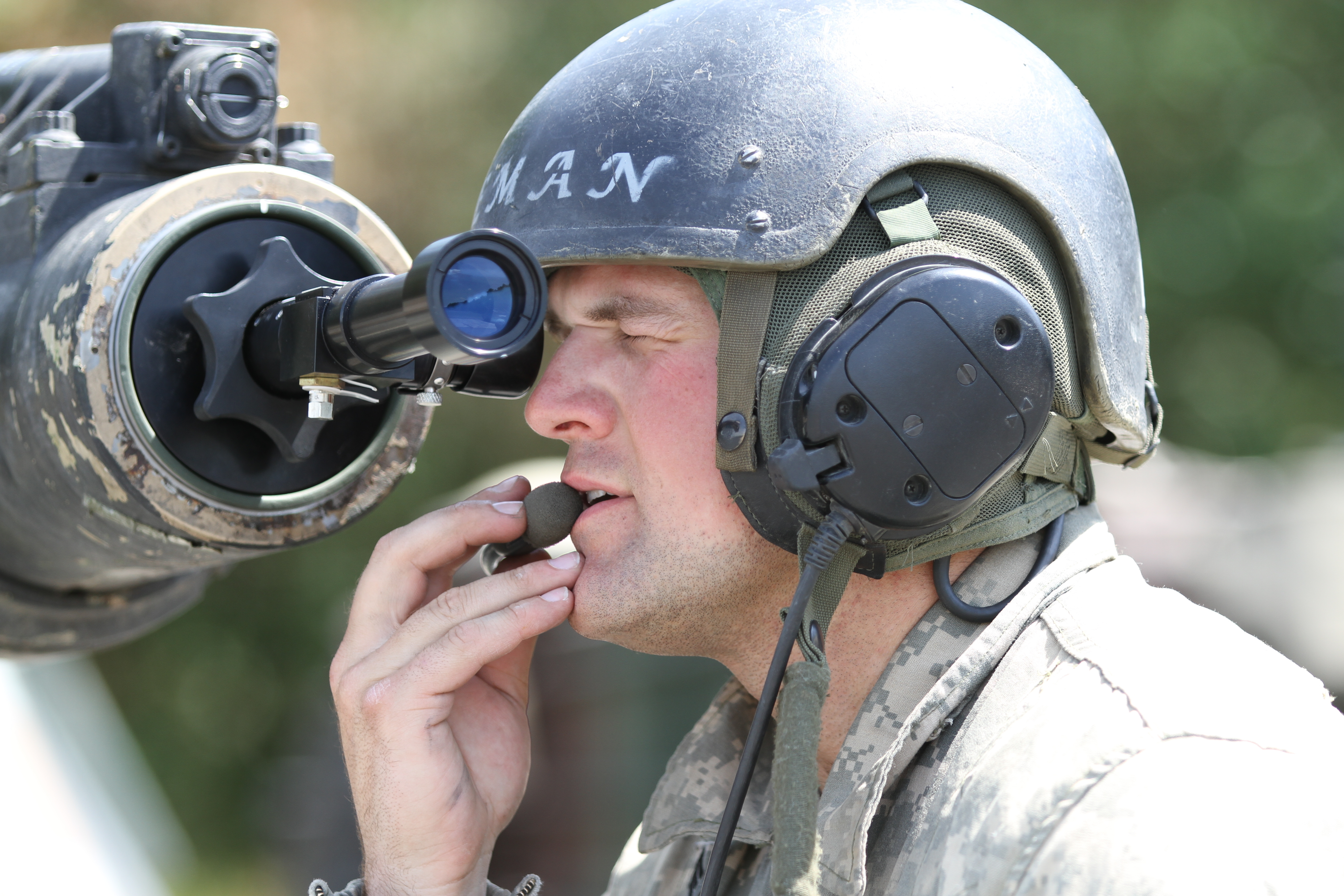 Staff Sgt. Jared Goertzen, 1st Brigade Combat Team, 1st Cavalry Division performs bore sighting procedures on the main gun of an M1A2 System Enhancement Package V2 Abrams tank. This is the first time the 1st Brigade Combat Team, 1st Cavalry Division has trained with the European Activity Set during Combined Resolve II. This set of armored vehicles at the US Army Joint Multinational Training Command in Grafenwoehr Germany support and outfit the United States Army while in Europe to train and perform contingency missions for the United States Army’s rotational forces. (U.S. Army photo by Staff Sgt. Christopher Robertson)